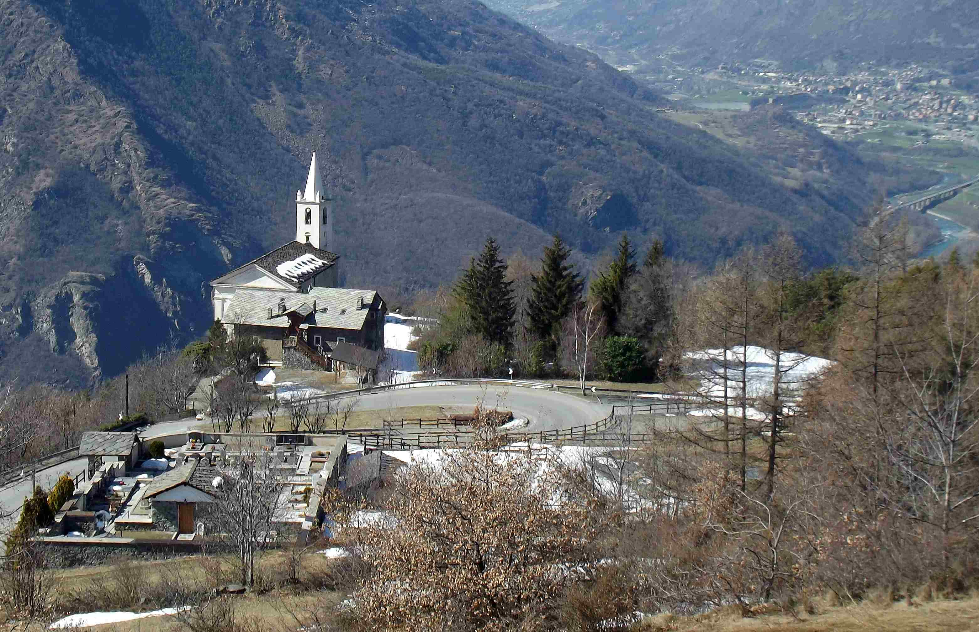 Émarèse (AO, Italy): Saint Pantaleone church and graveyard